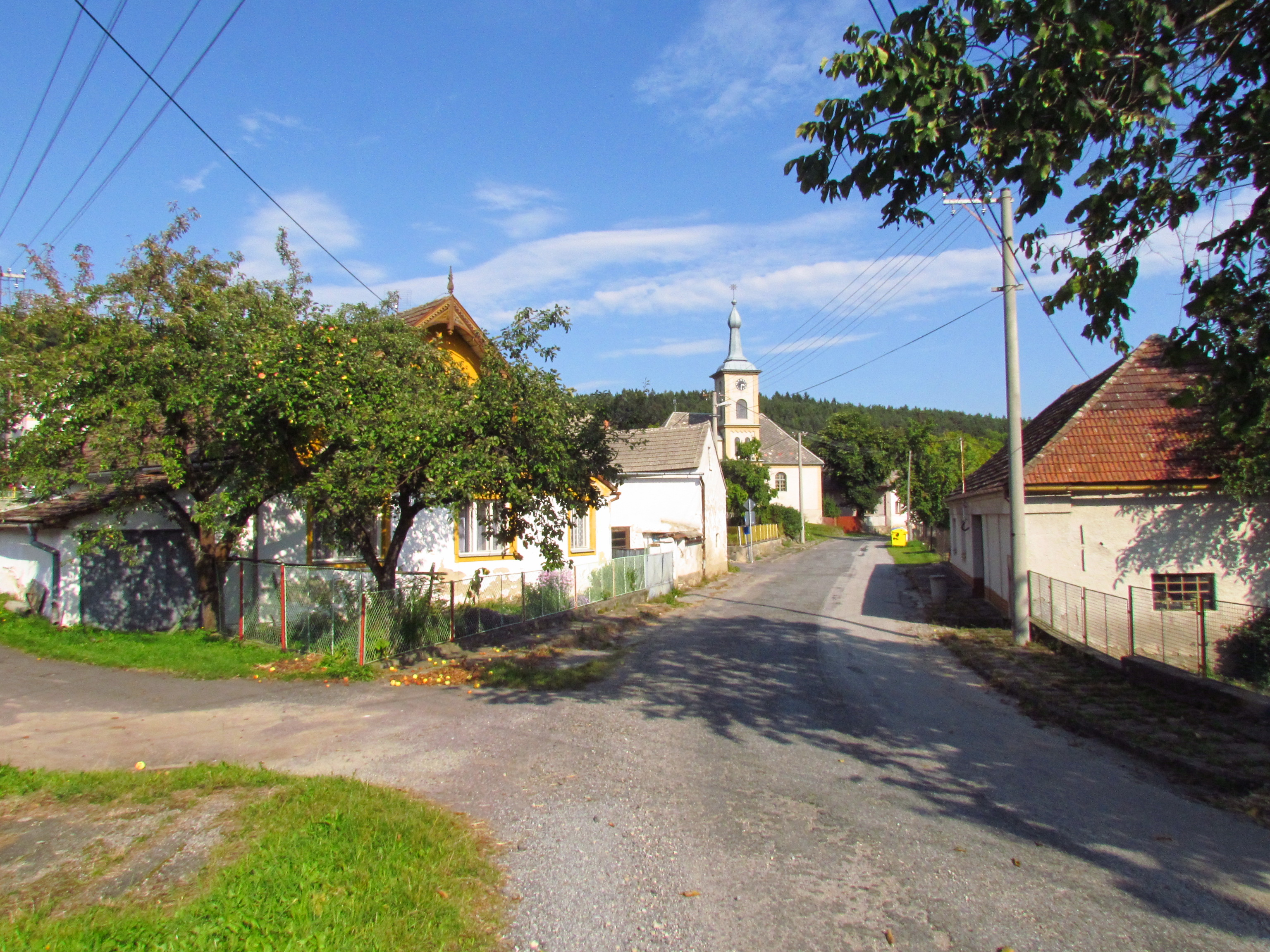 Center of Horní Vilémovice, Třebíč District.